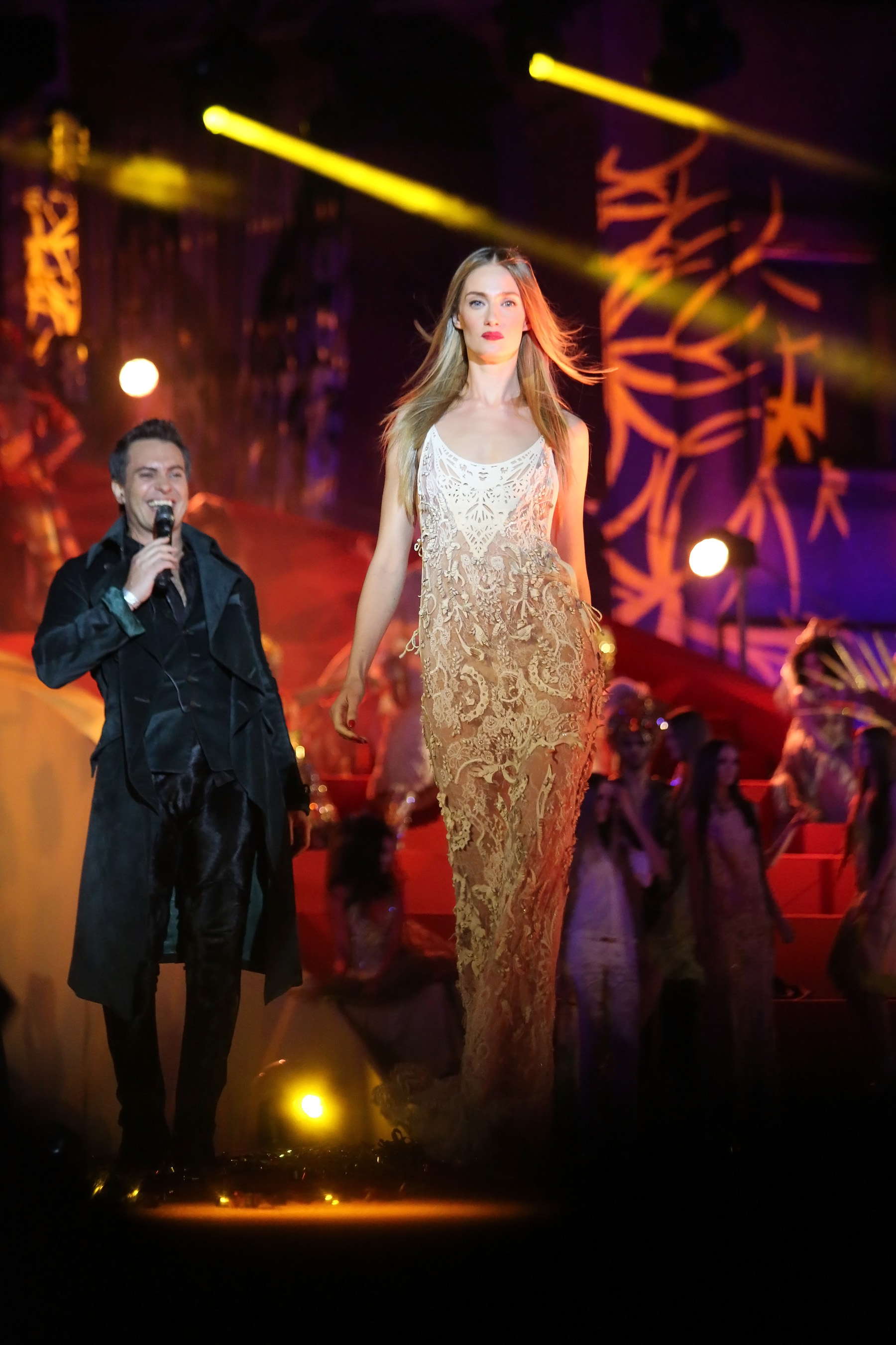 Eva Riccobono and Erwin Schrott, opening show of Life Ball 2013 at the city hall of Vienna, Vienna, Austria.